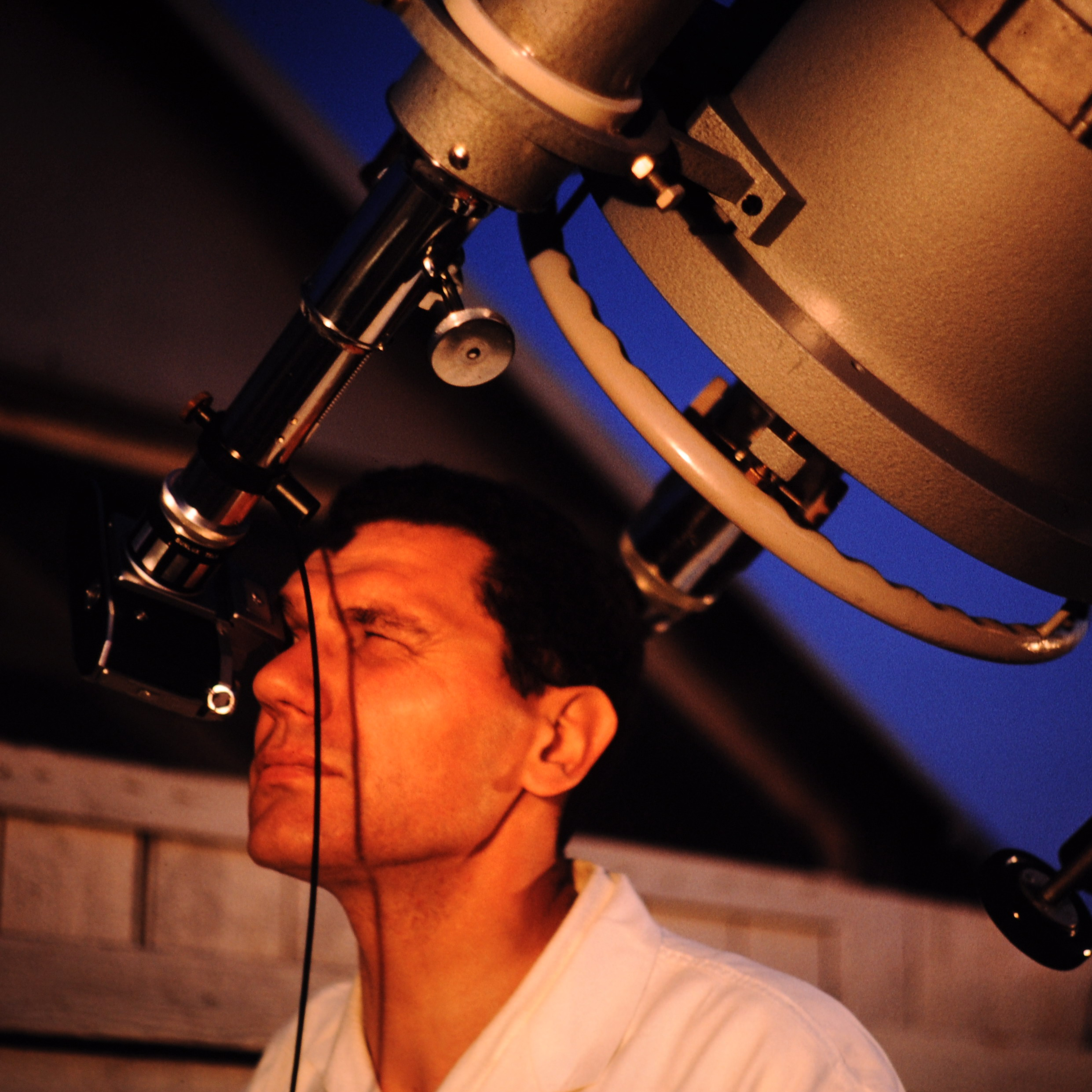 Hans Oberndorfer at the 12" Cassegrain telescope in the Munich Public Observatory